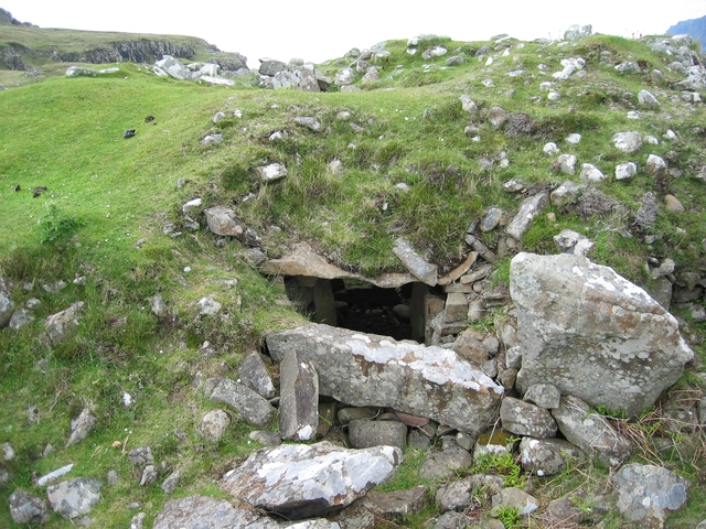 Chambered Cairn at Rubh' an Dunain. The entrance to the cairn 180697